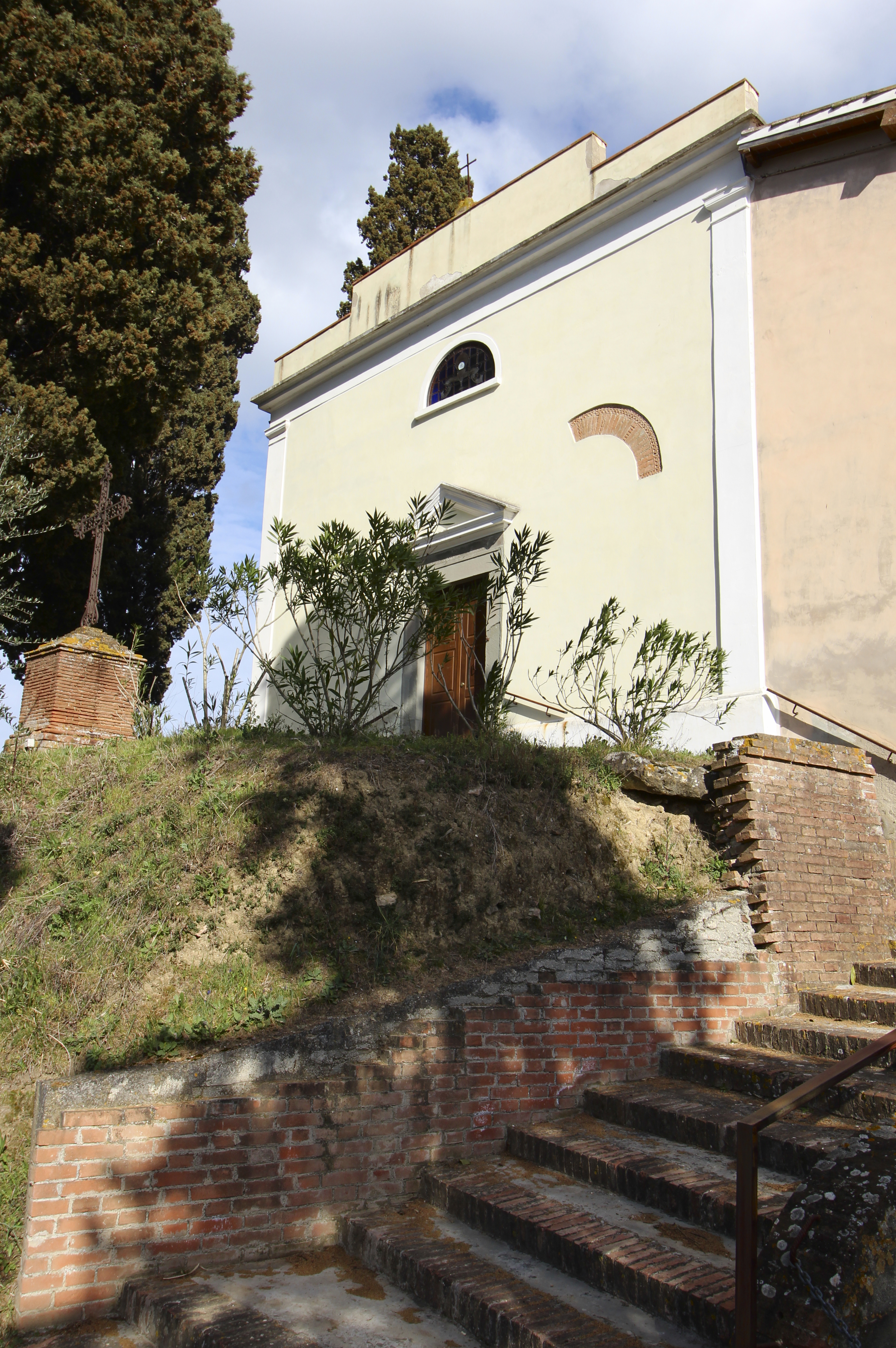 church Santa Lucia, Calenzano, hamlet of San Miniato, Province of Pisa, Tuscany, Italy